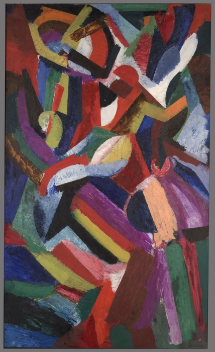 "Composition III," by the American cubist painter Patrick Henry Bruce, oil on canvas. 63 in. 9/16 x 38 3/16 in. Yale University Art Gallery, gift of Collection Société Anonyme. Courtesy of Yale University, New Haven, Conn.